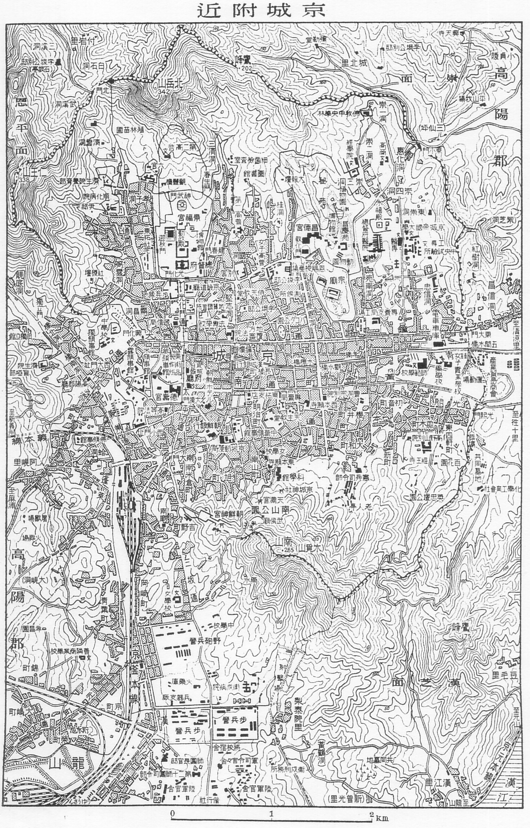 Keijo(Seoul) map circa 1930